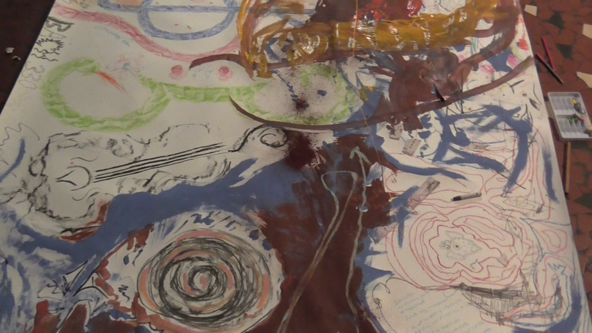 This file is part of the Bach 330 international Libre Art project. This is a clip from the Bach 330 Dawn, a Libre, CC-BY-SA licenced community painting made in Budapest in the Bach 330 Hungarian Opening Events organized by Attila_Szervác Libre composer & Libre culture, Libre art activist & author.